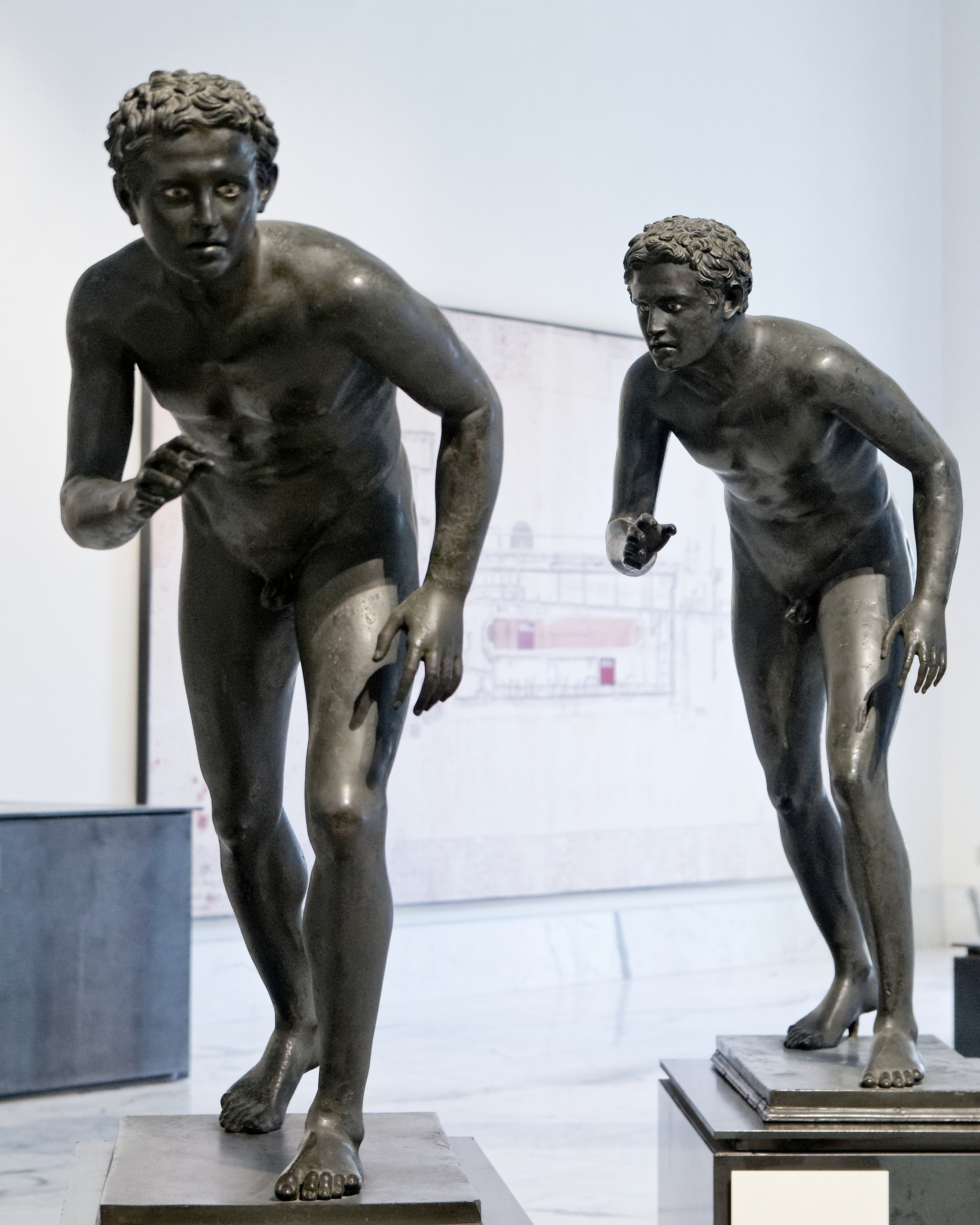 Athletes, usually identified as runners.